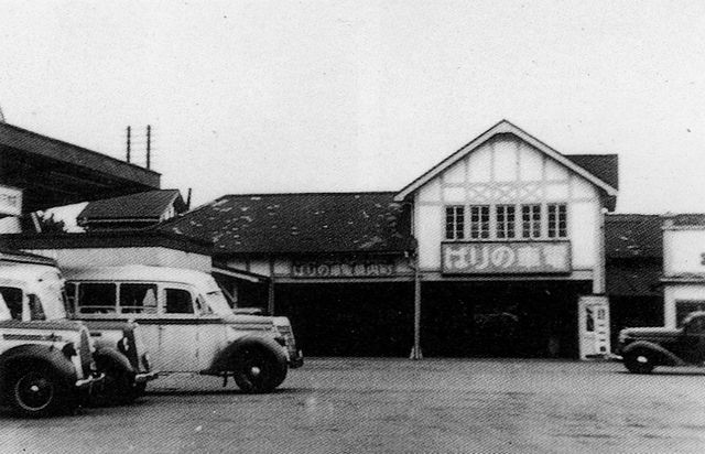 Odawara Station on the Hakone Tozan Railway Tram Line